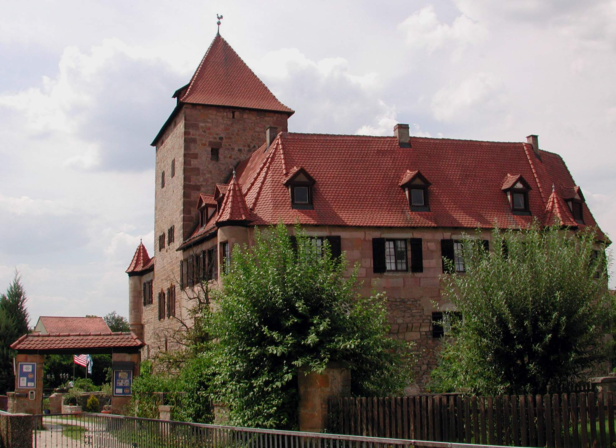 Picture of the castle in Kornburg.